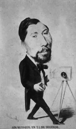 Caricature of photographer Jean Laurent by Aubert & Cie.